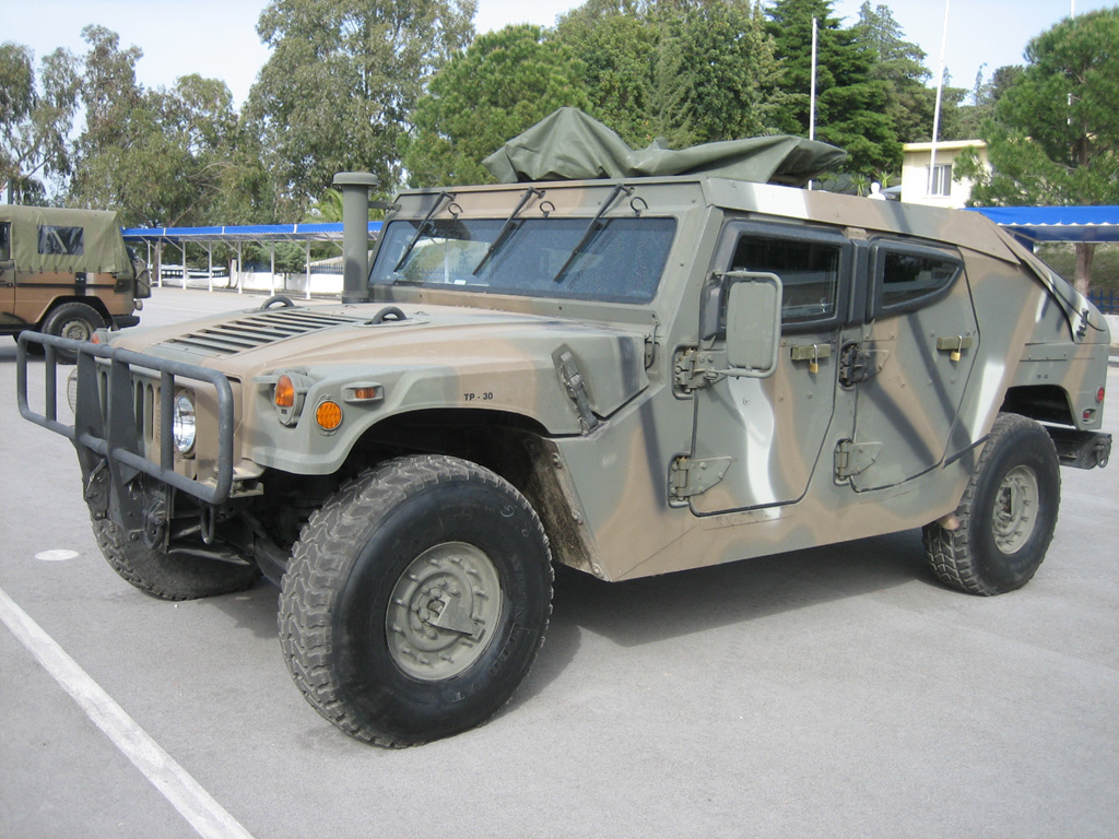 A Greek Army HMMWV M1114GR Vehicle capable of carrying the Russian 9M133 Kornet ATGM Antitank. Designed for ELBO by Plasan Sasa.